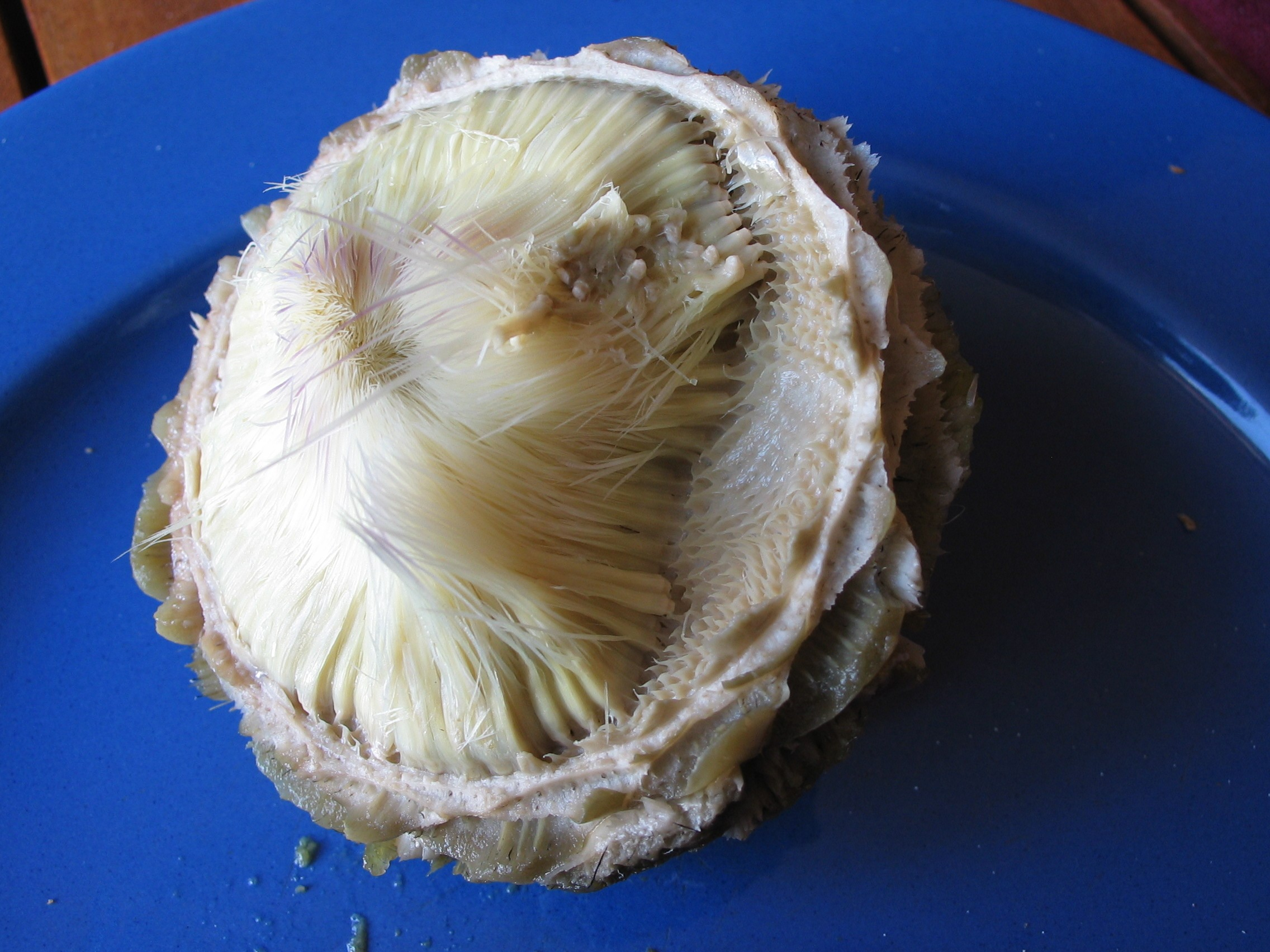 Cooked artichoke heart